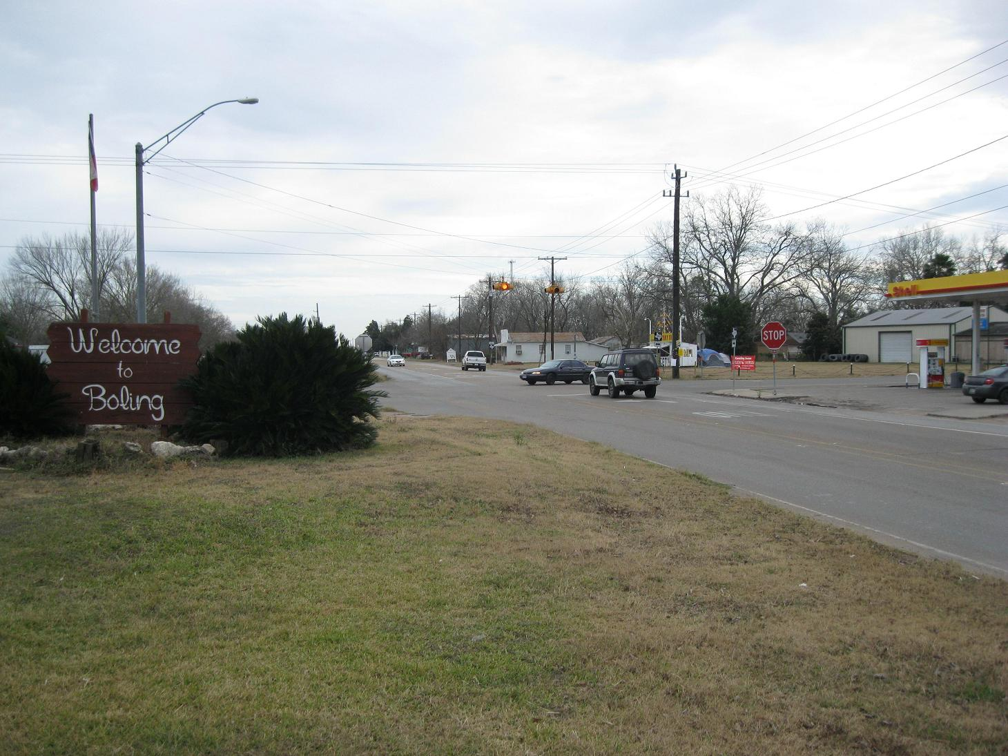 The "Welcome to Boling" sign is at the intersection of FM 442 and FM 1301. The view is along FM 1301 toward the southeast.